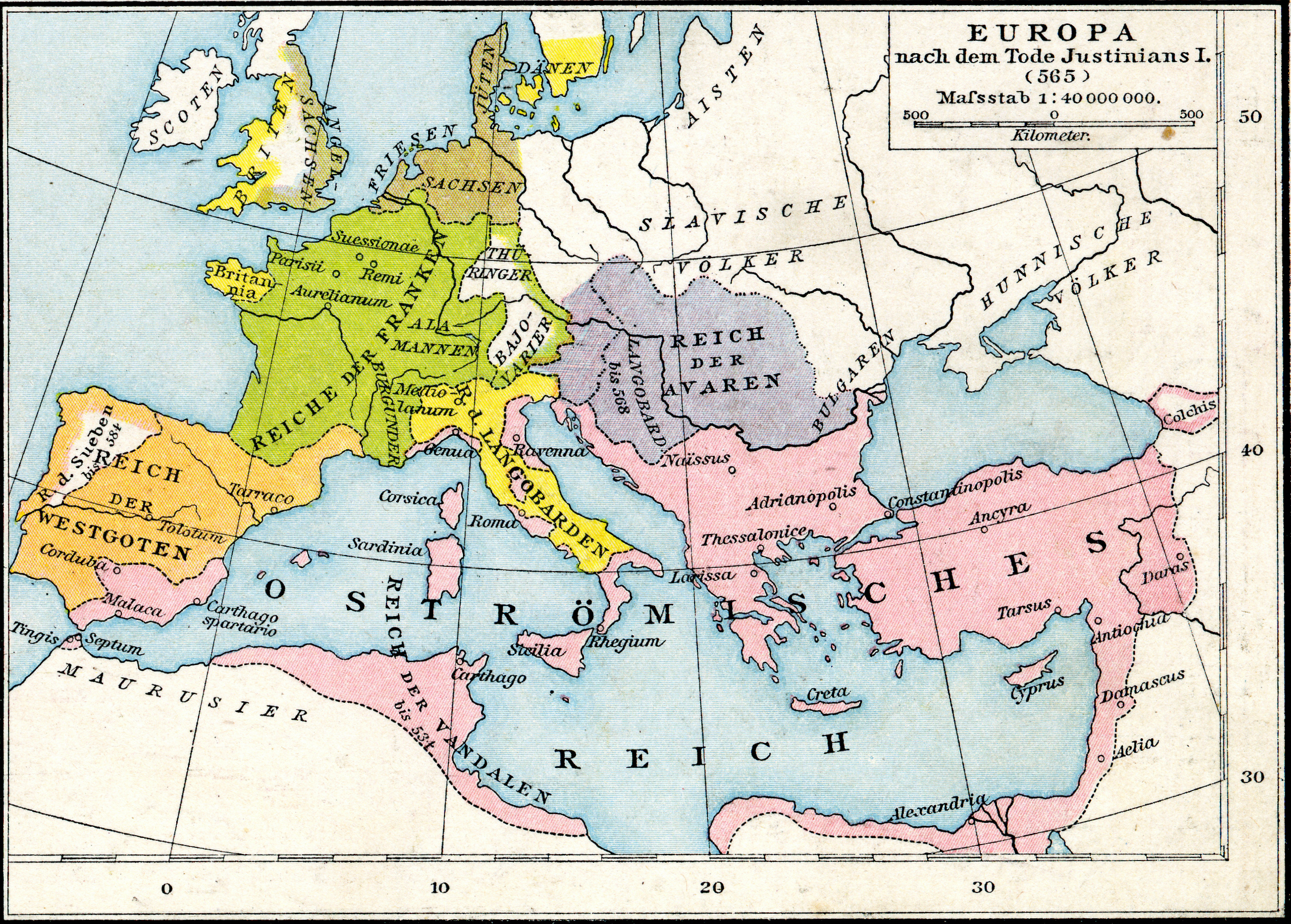 Fourth map (of four) from plate 19 of Professor G. Droysens Allgemeiner Historischer Handatlas, published by R. Andrée.